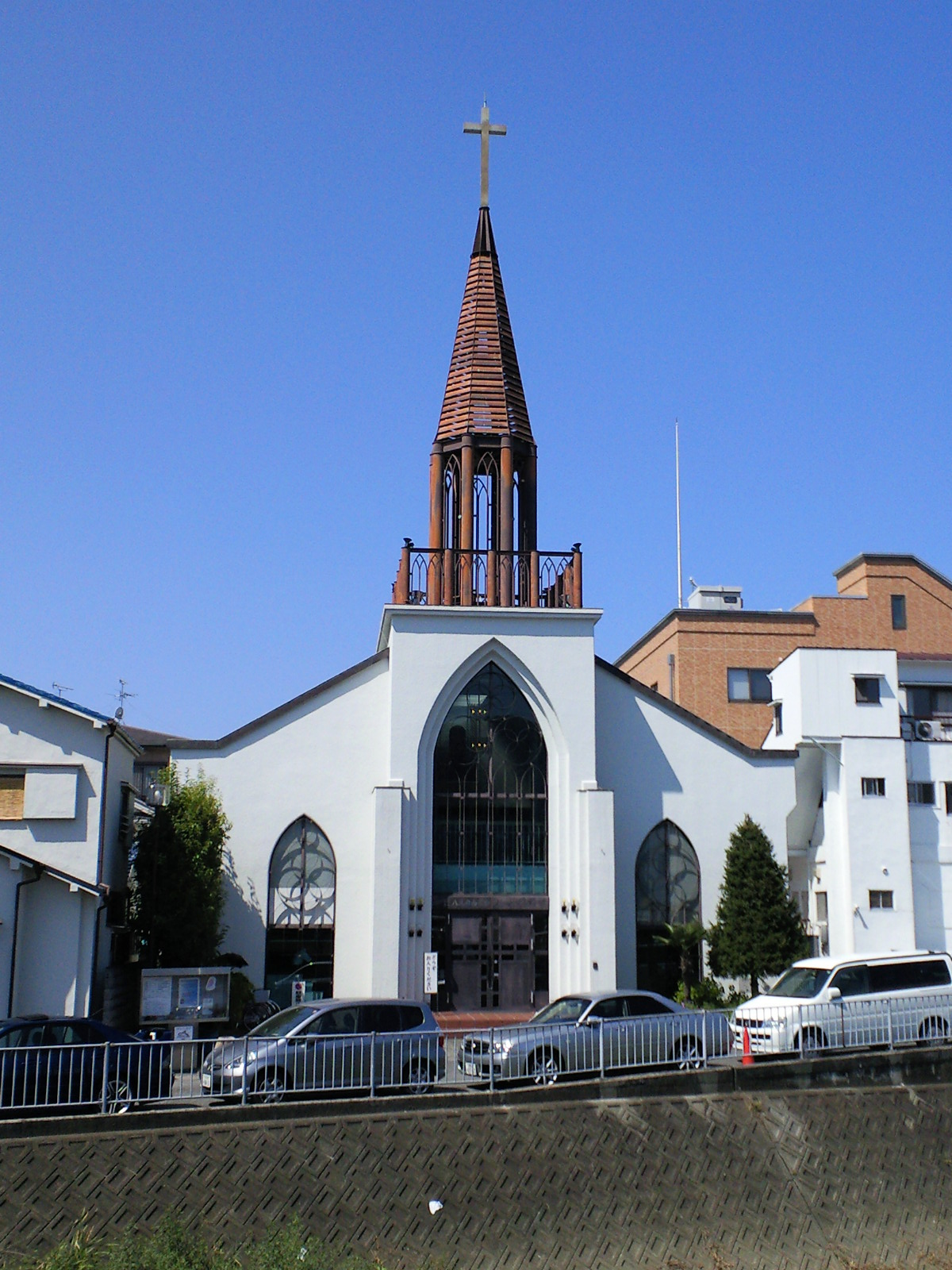 Grace-Cathedral, Yao, Osaka